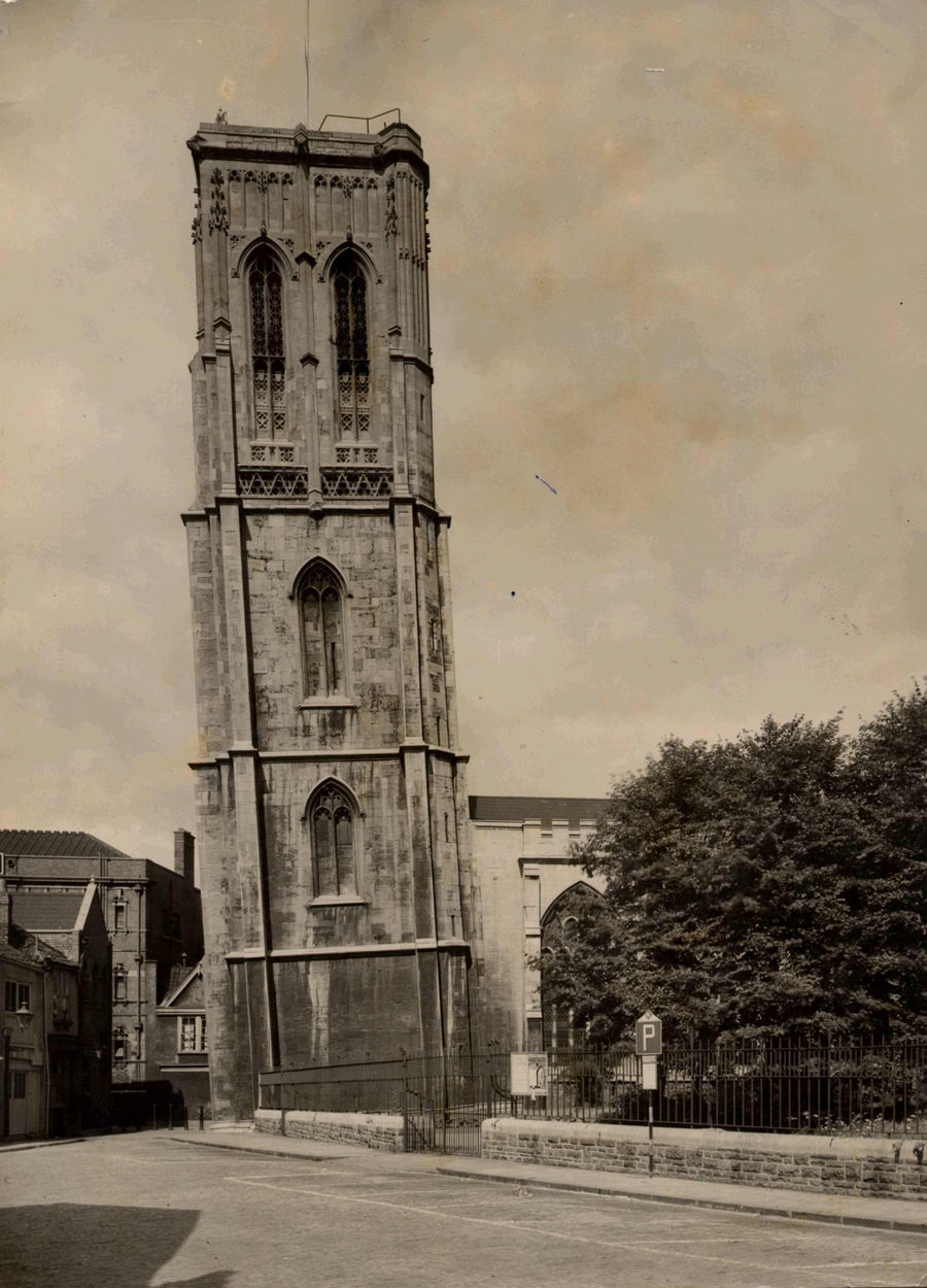 Black and white photograph of Temple Church, Bristol, England, taken before the Second World War. The view is from the south of the church showing the lean of the medieval tower. The church was bombed heavily destroying the stores of records kept in the cellars and leaving only the leaning tower and outside walls standing.